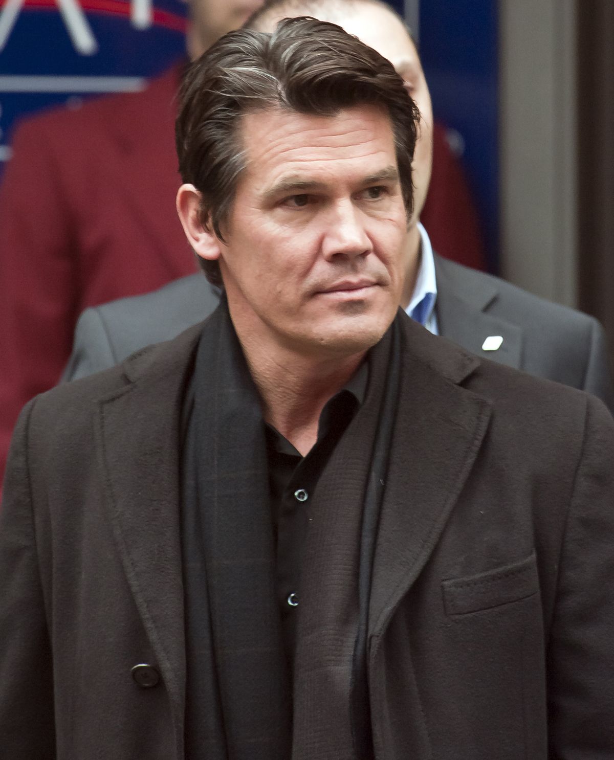 Josh Brolin leaving the press conference of True Grit at the Berlin Film Festival 2011